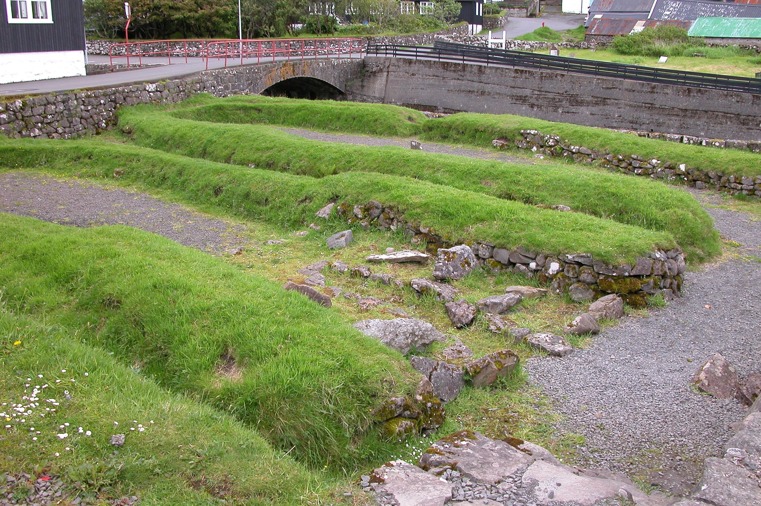 Old Viking Settelments of Kvívík on Streymoy, Faroe Islands